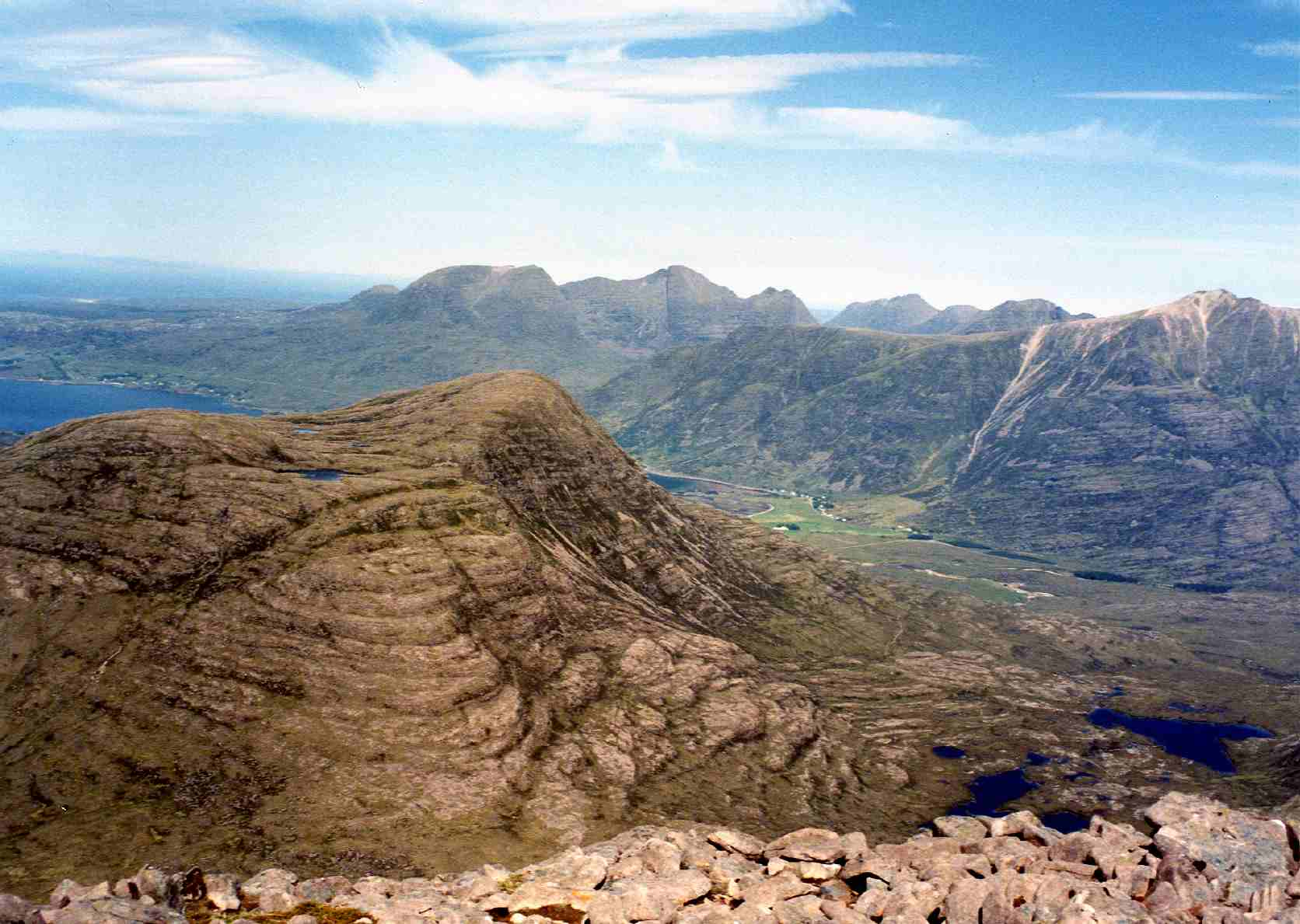 Maol Cheann-dearg (right) and An Ruadh-stac (left) from Beinn Liath Mhòr with Beinn Bhàn and the Skye Cuillin in the background . Personal photograph taken by Mick Knapton